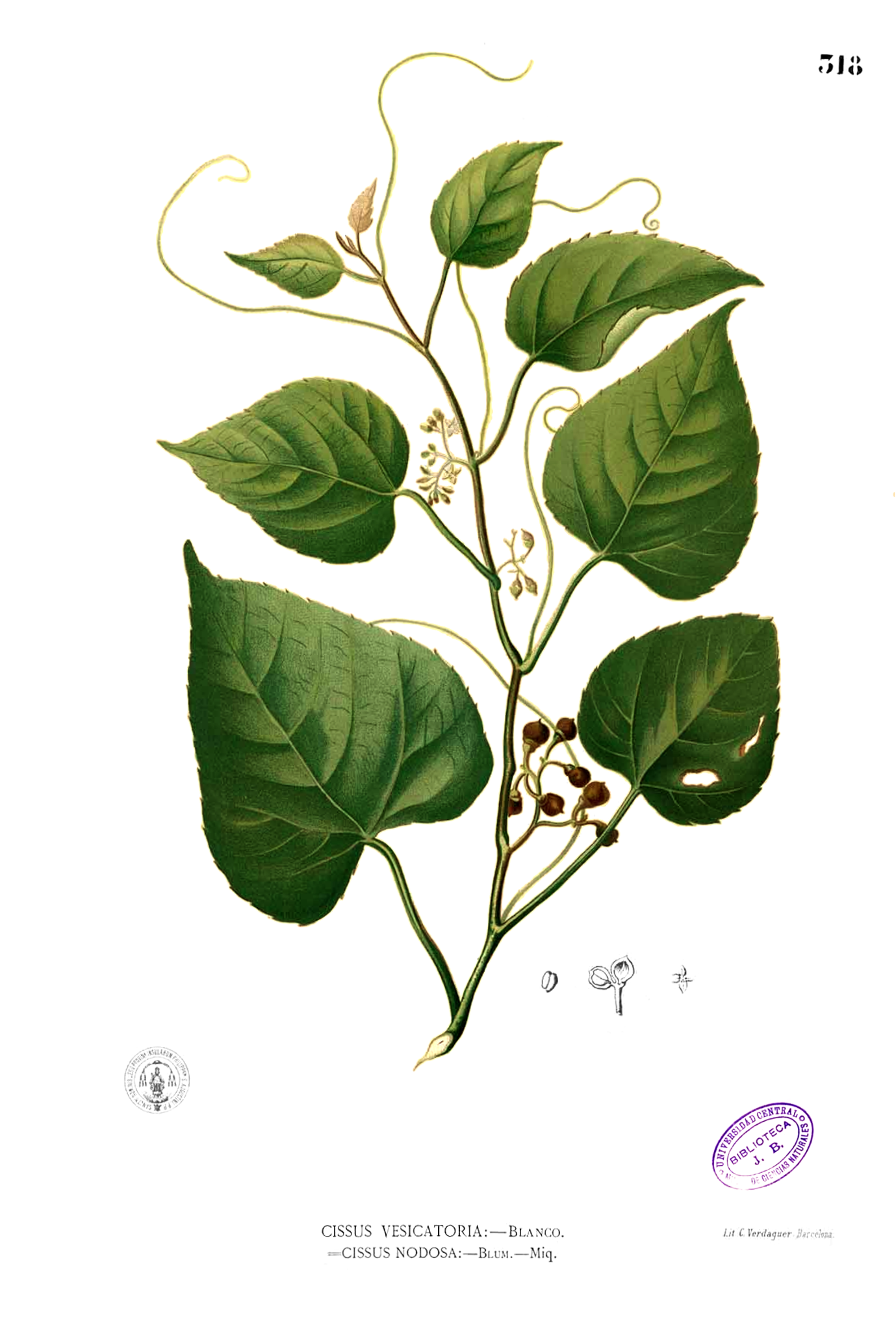 Plate from book Cissus repens